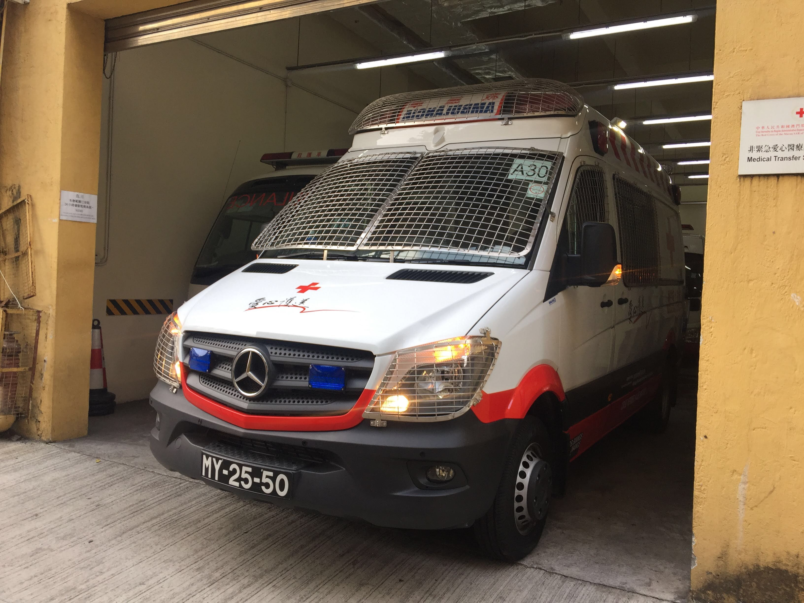 Ambulância